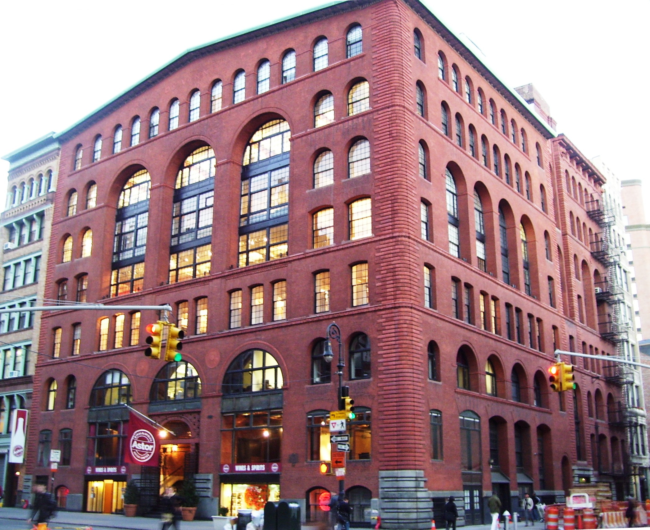 The DeVinne Press Building at 393-399 Lafayette Street on the corner of East 4th St. in the NoHo section of lower Manhattan, New York City, was built in 1885-1886, with an addition in 1892. It was designed by Babb, Cook & Willard.